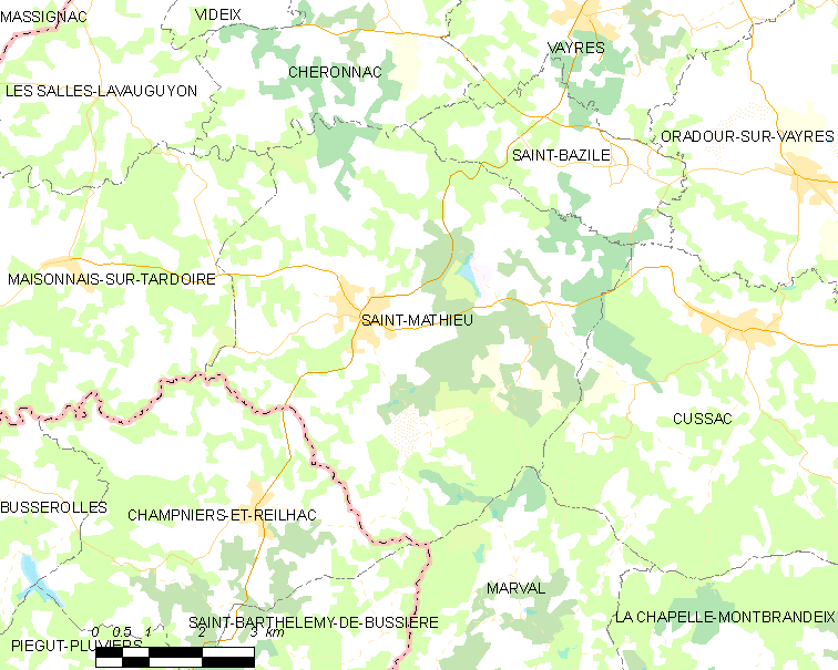 Map of French municipality Saint-Mathieu